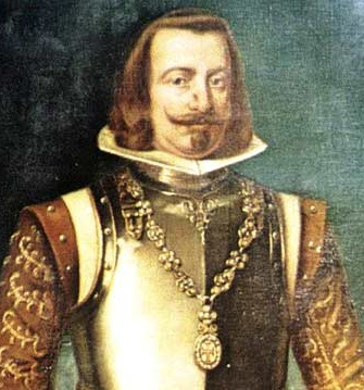 King John IV of Portugal.